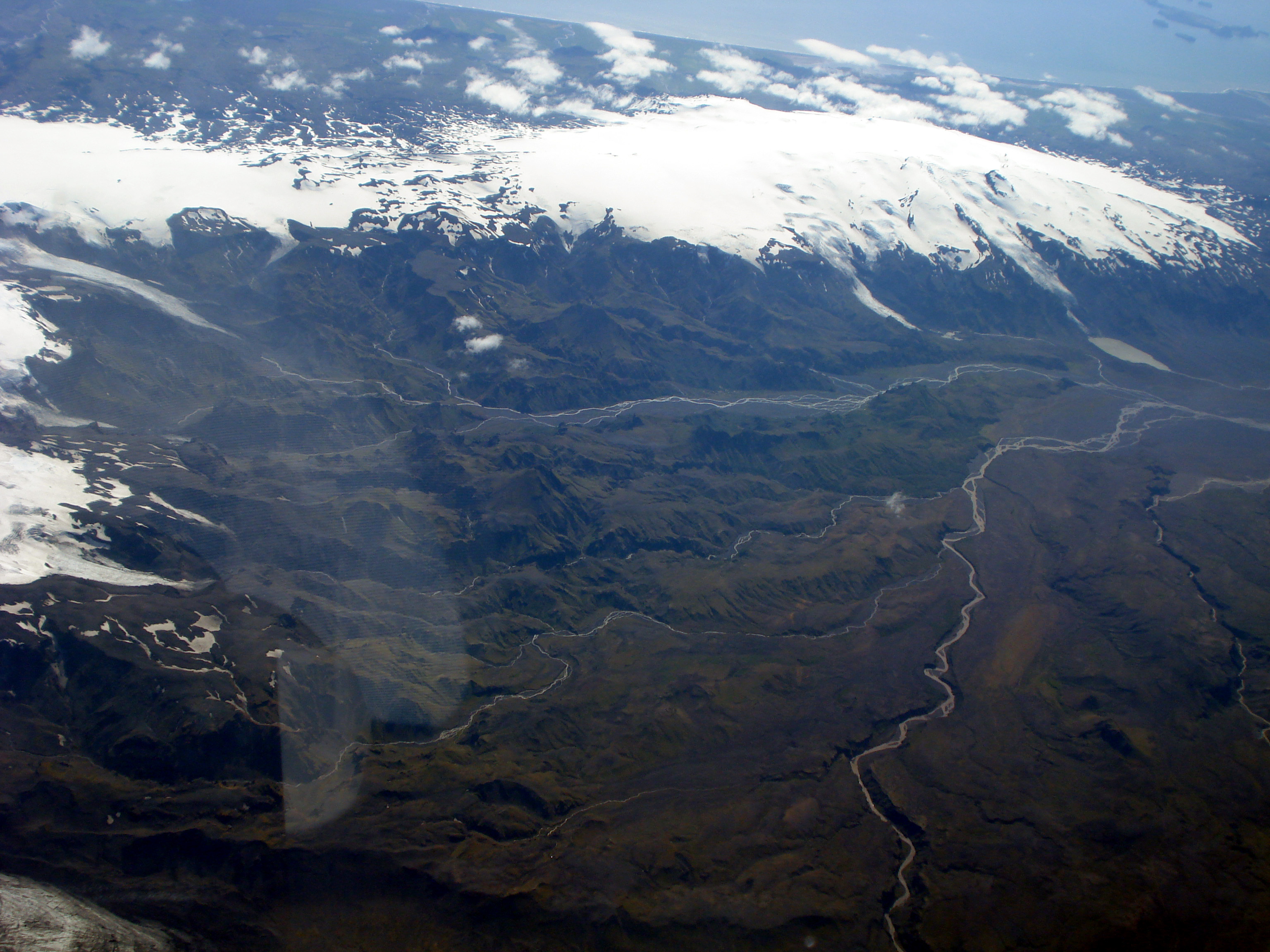 Þórsmörk and Eyjafjallajökull glacier in Iceland